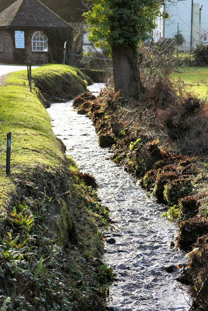 Stream in Holford Combe